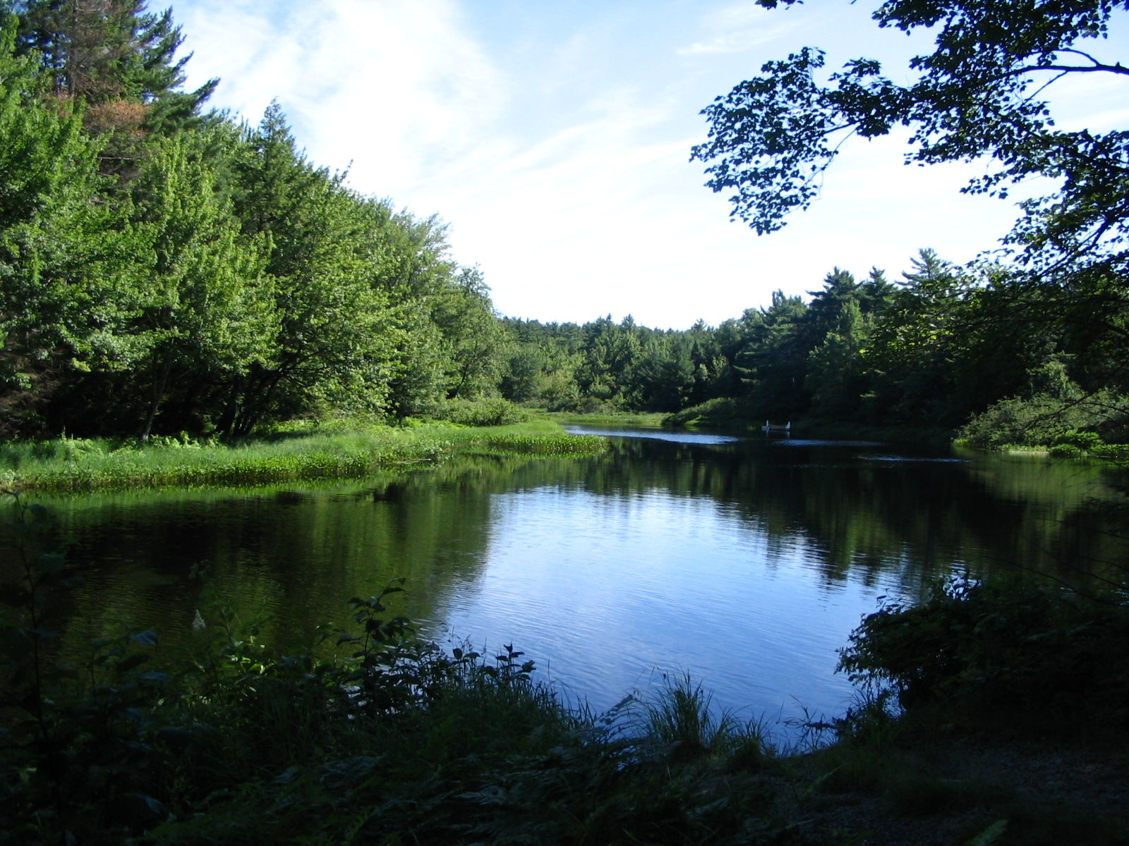 Kejimkujik National Park, Nova Scotia